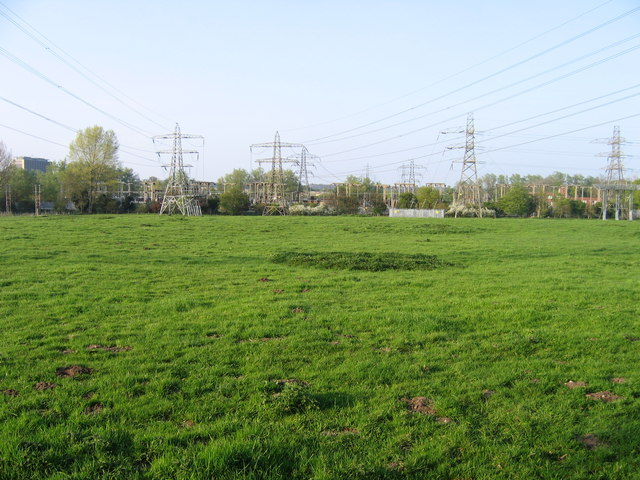 Arminghall Henge. Surrounded by pylons and an electricity sub-station, a ring shaped bump is all that can be discerned of what was once an impressive double bank and ditch surrounding a horseshoe of eight massive posts resembling a wooden Stonehenge, in fact it was only rediscovered by aerial photography in 1929 : For a more in depth exploration of the site